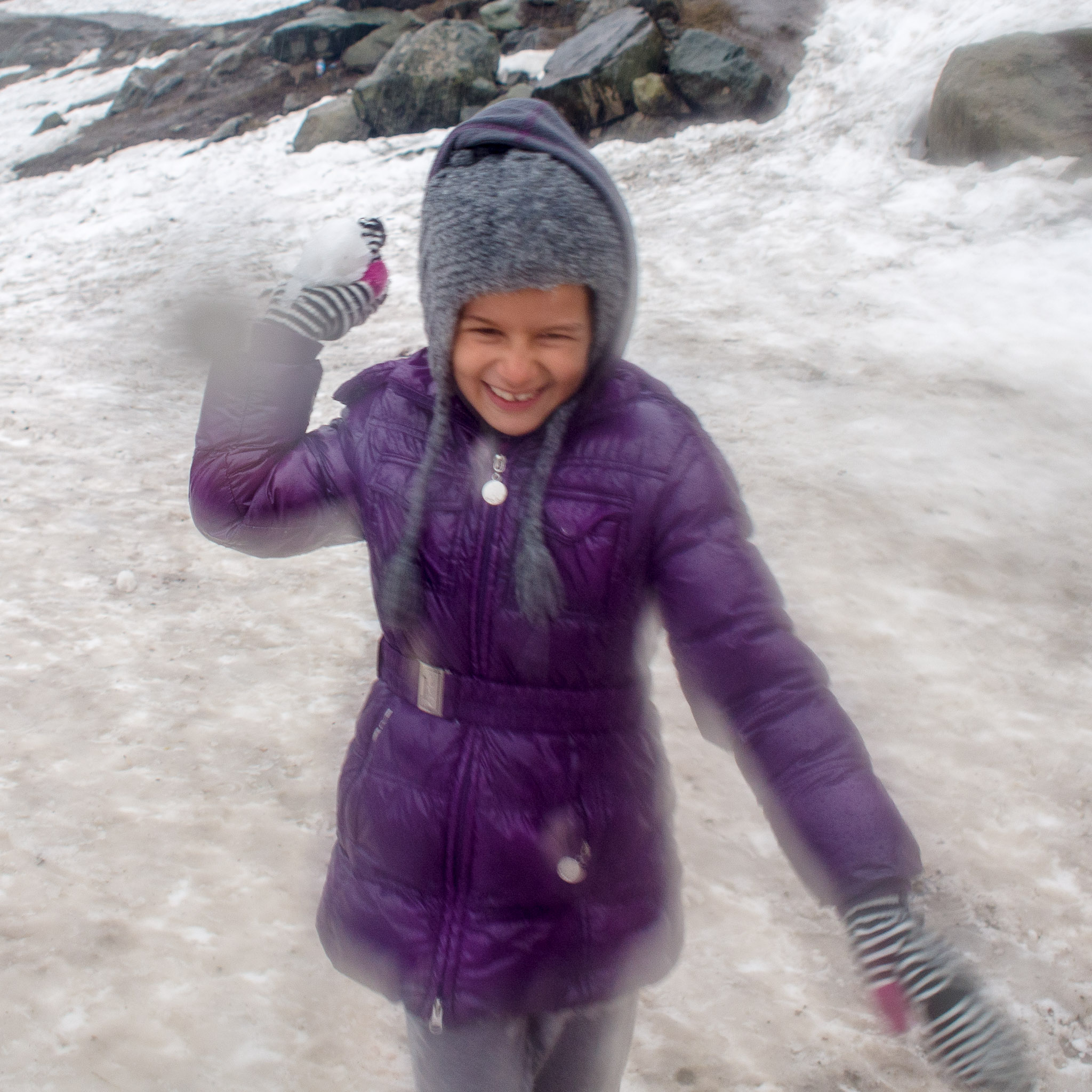 Maya throwing a Snowball!